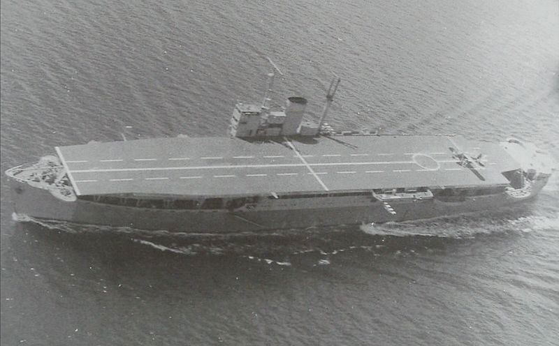 Imperial Japanese Army landing vehicle carrier Akitsu Maru